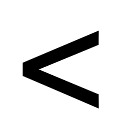 In Arial, a less-than symbol